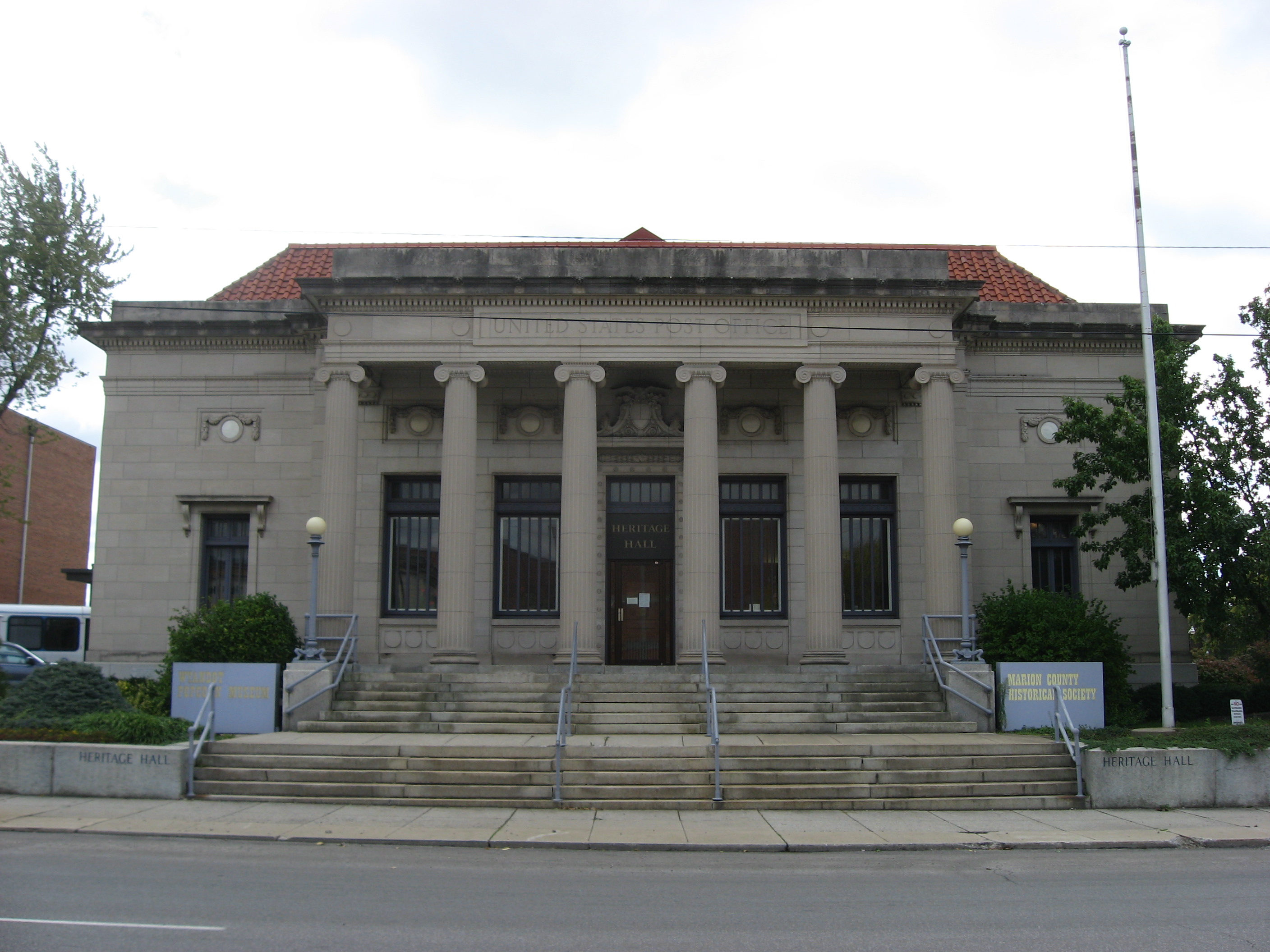 Front of the Old US Post Office, located at 169 E. Church Street (State Routes 95/309) in downtown Marion, Ohio, United States. Built in 1910 and today the location of the Marion County Historical Society, the post office is listed on the National Register of Historic Places.